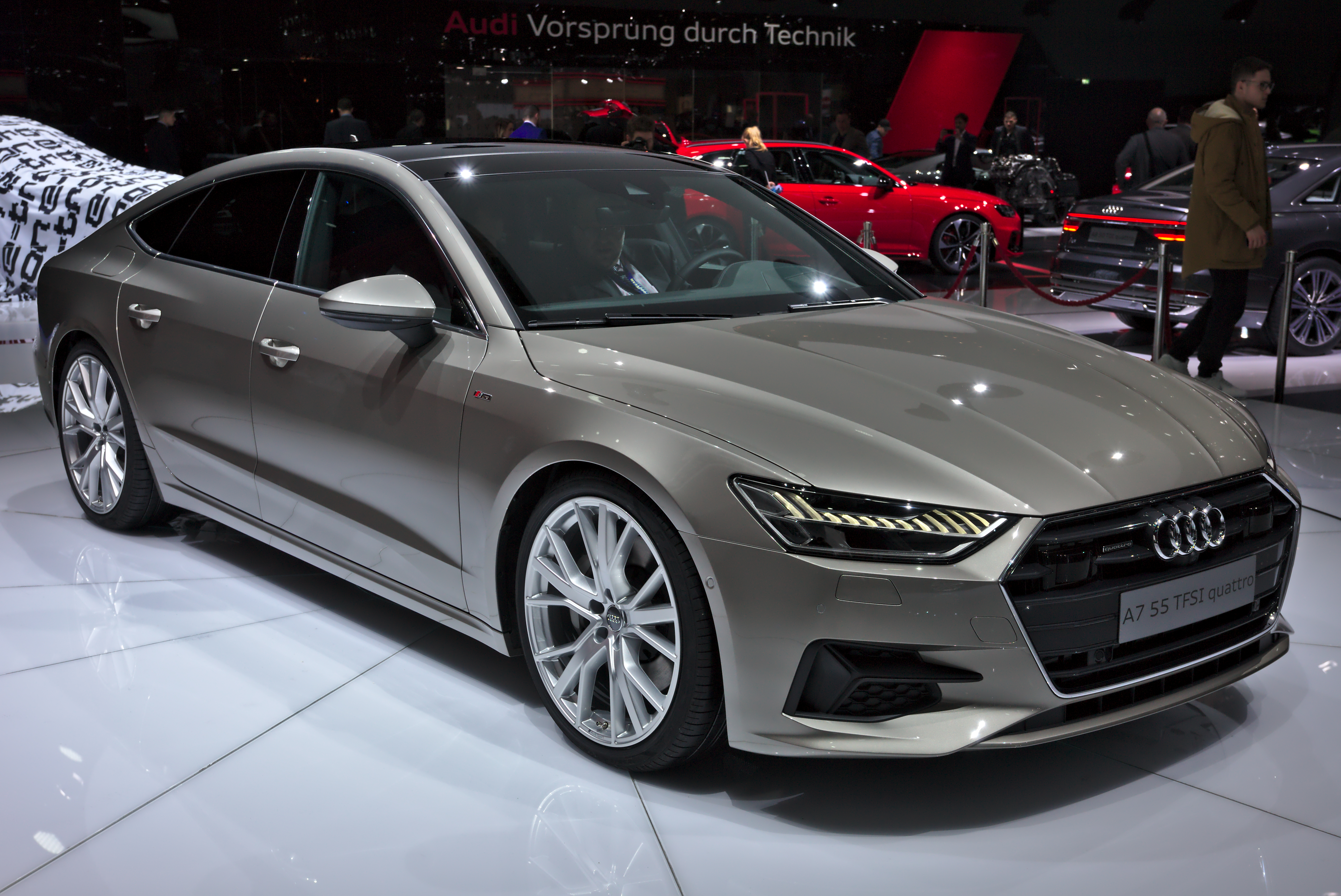 Audi A7 Sportback at Geneva Motorshow 2018